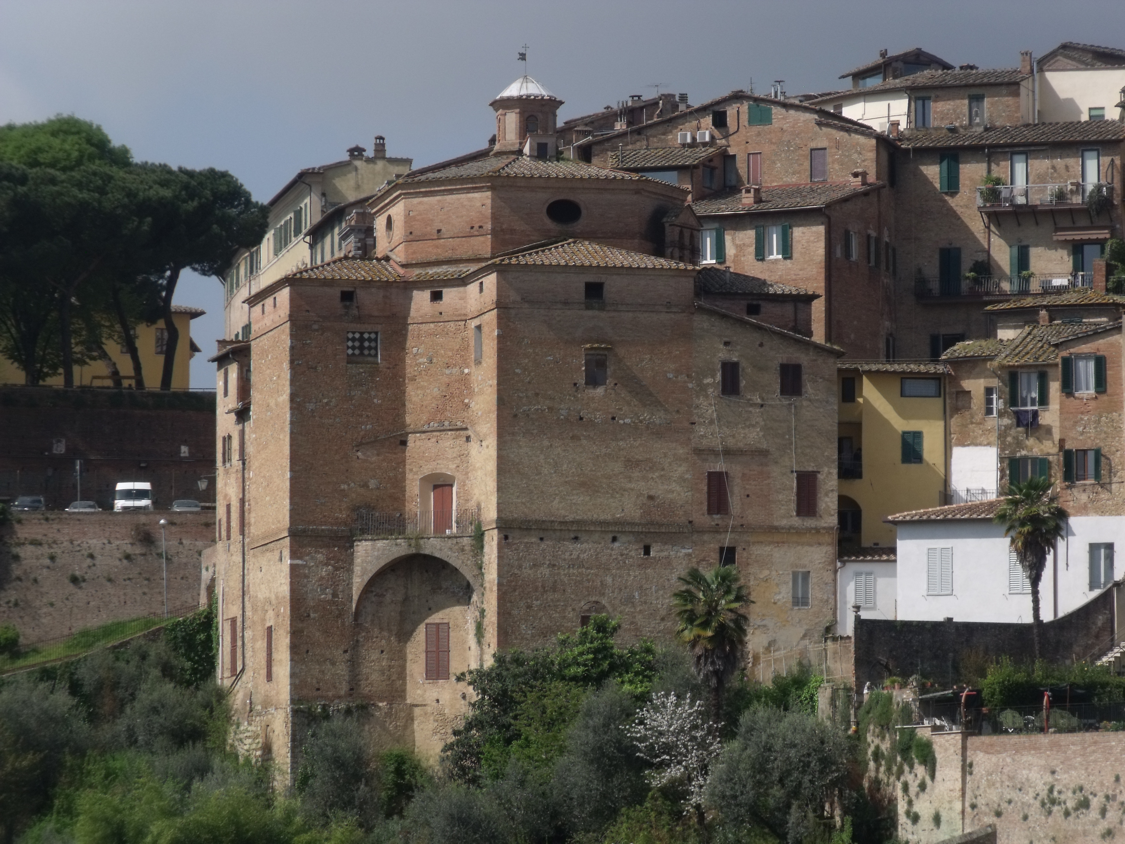 Backside of the Church of San Giuseppe, Siena, Tuscany, Italy